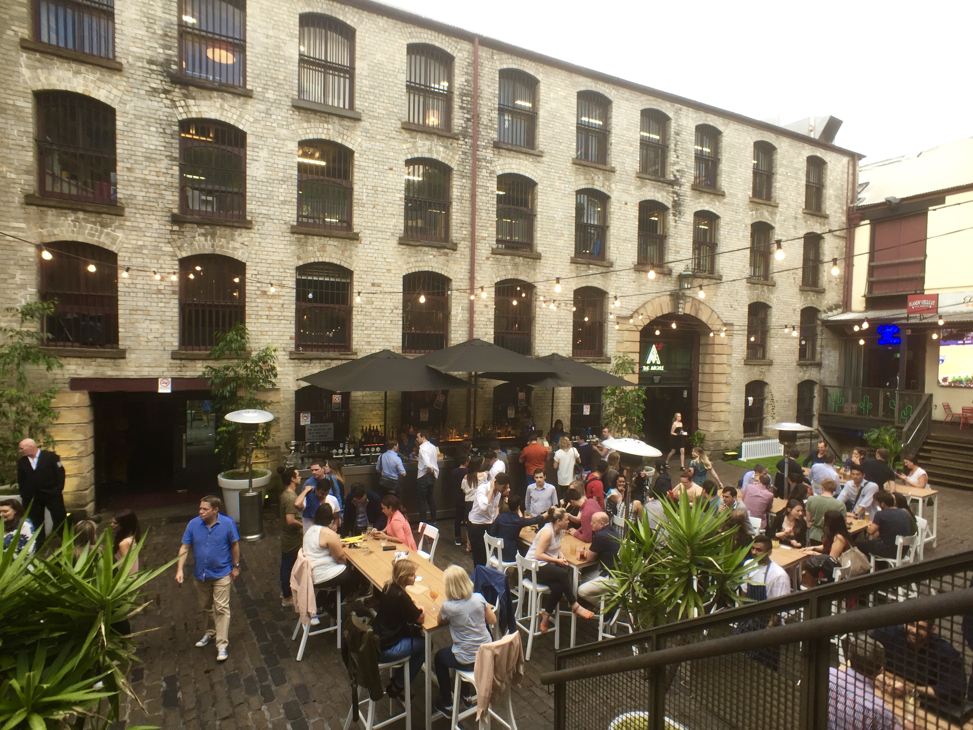 The Argyle, the Rocks, Sydney